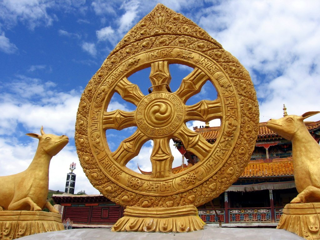 Kandze Gompa, Ganzi Si or Ganzi monastery. Home of more than 500 Gelupka monks. Was built on 17th century.